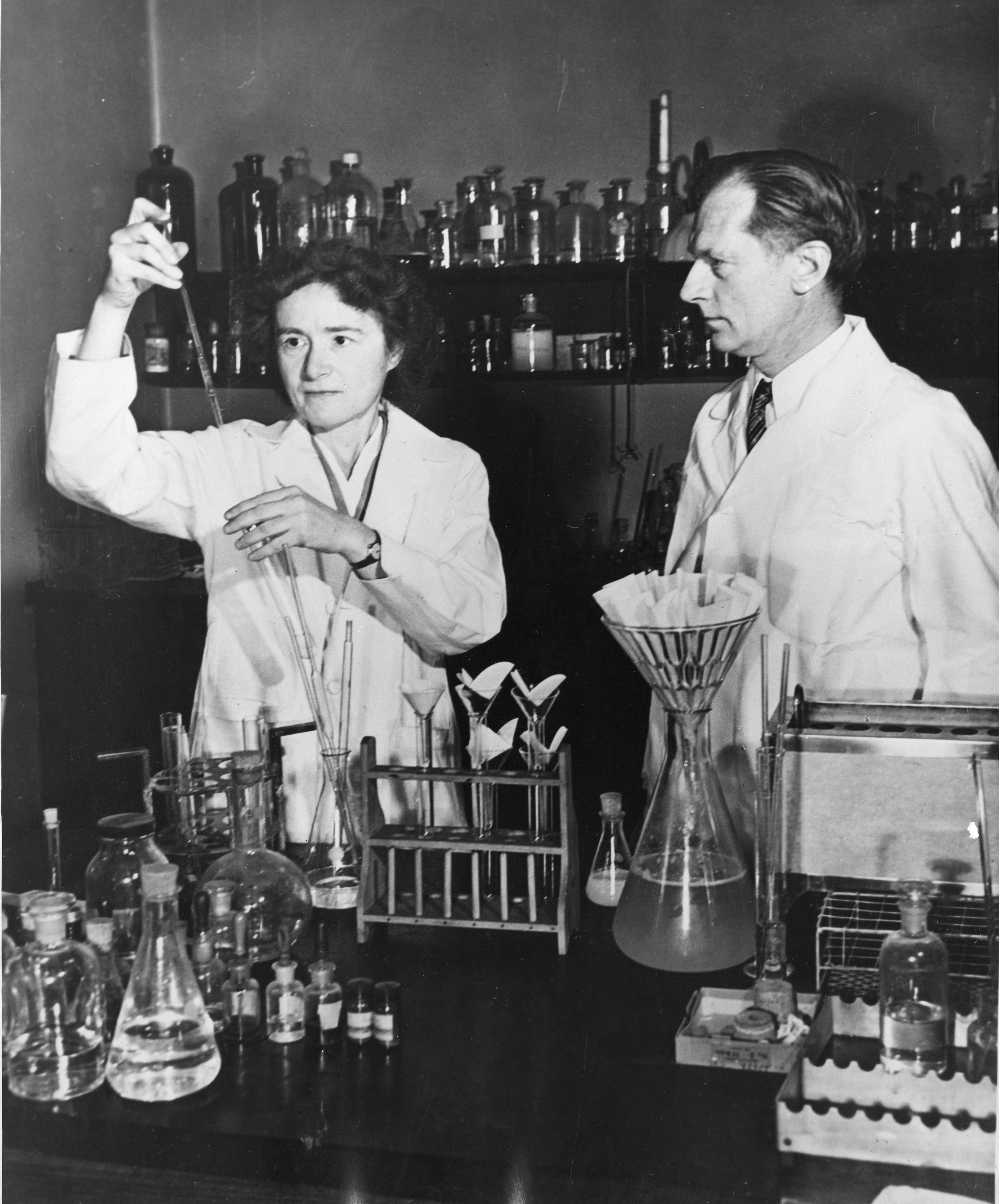 Description: Biochemist Gerty Theresa Radnitz Cori (1896-1957) and her husband Carl Ferdinand Cori (1896-1984) were jointly awarded the Nobel Prize in medicine in 1947 for their work on how the human body metabolizes sugar. Creator/Photographer: Unidentified photographer Medium: Black and white photographic print Date: 1947 Persistent URL: [1] Repository: Smithsonian Institution Archives Collection: Science Service Records, 1902-1965 (Record Unit 7091) - Science Service, now the Society for Science & the Public, was a news organization founded in 1921 to promote the dissemination of scientific and technical information. Although initially intended as a news service, Science Service produced an extensive array of news features, radio programs, motion pictures, phonograph records, and demonstration kits and it also engaged in various educational, translation, and research activities. Accession number: SIA2008-1291